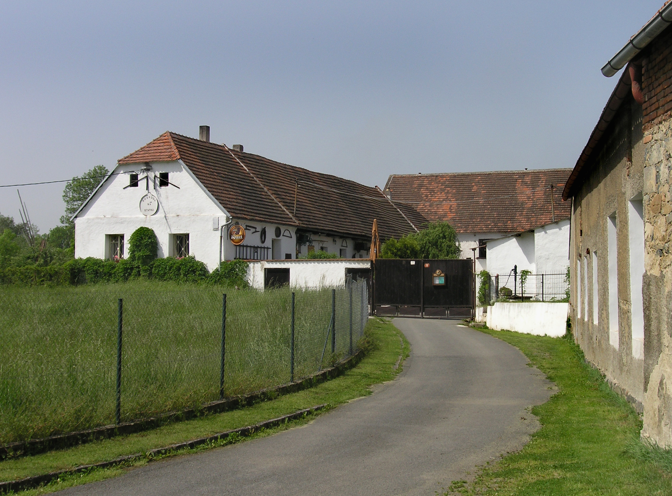 Old farm in Pecerady, part of Týnec nad Sázavou, Czech Republic